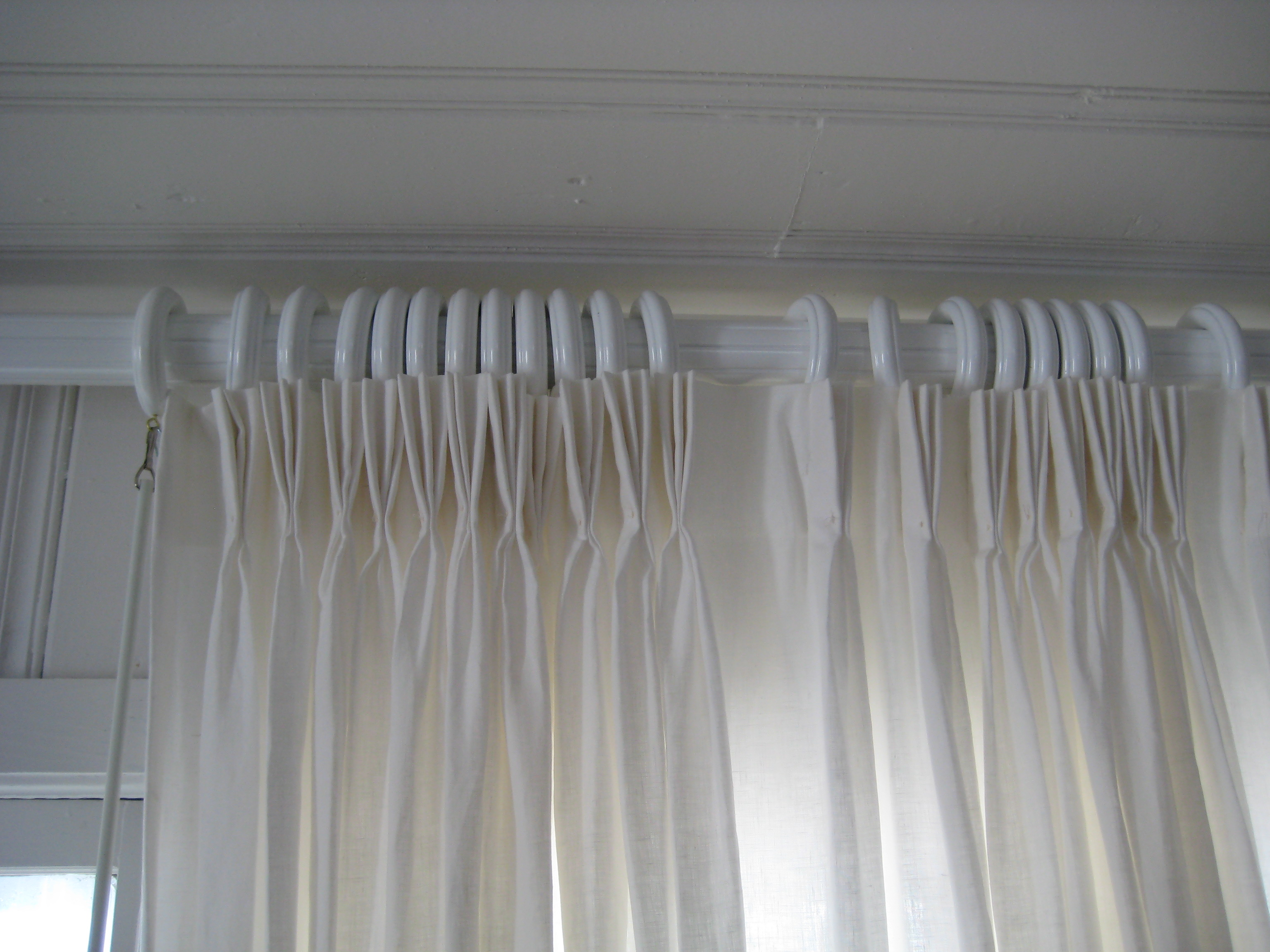 Original caption: Our Hanky Linen Sheer is perfect for curtains on the beach, filtering the sunrise and adding breezy romance. Elegant 100% linen can be pleated or draped; we recommend using it unlined for a light and airy look. Large wood poles and rings add to the cottage appeal.